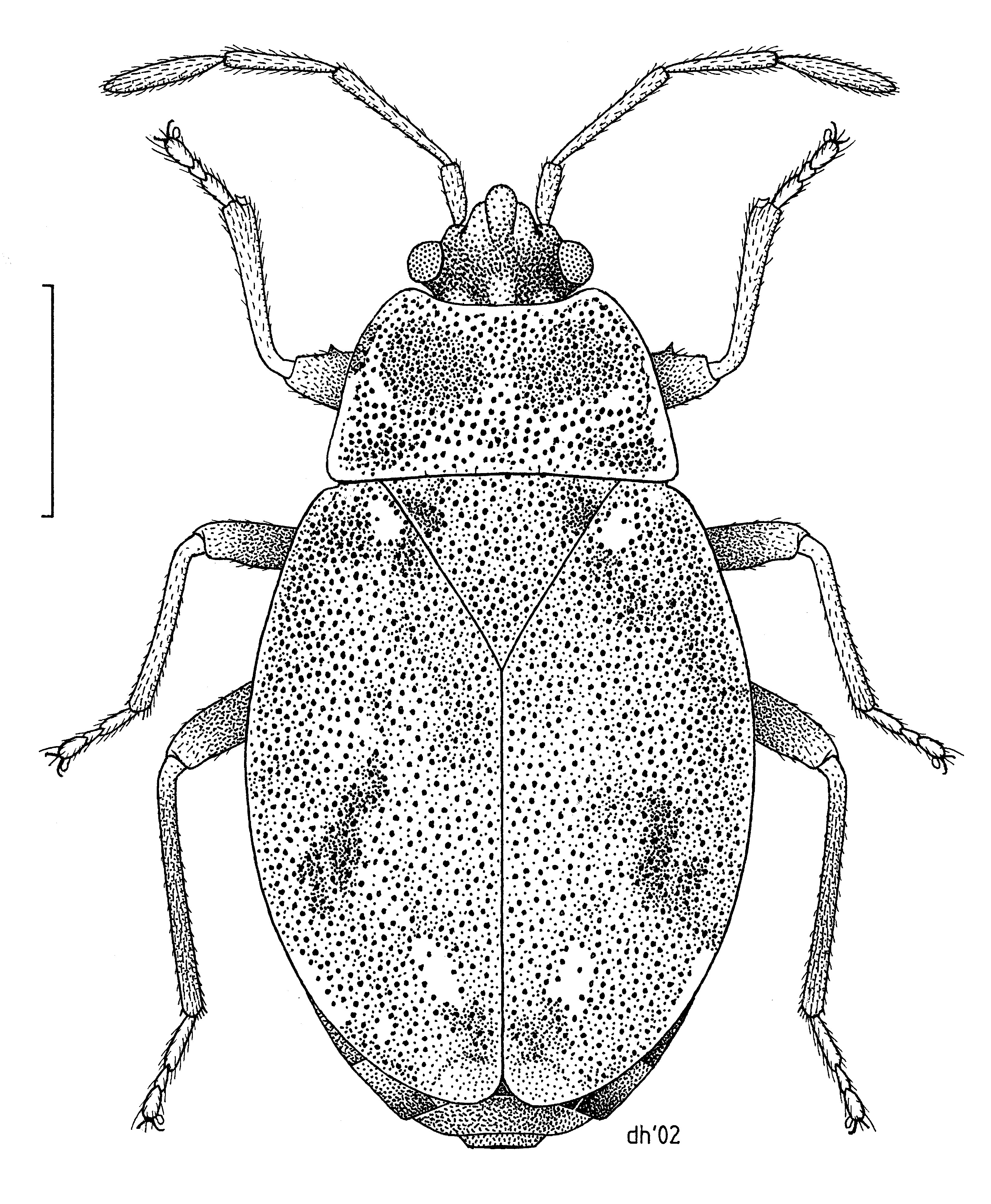 (Hemiptera: Artheneidae) Nothochromus maoricus illustrated by Des Helmore.